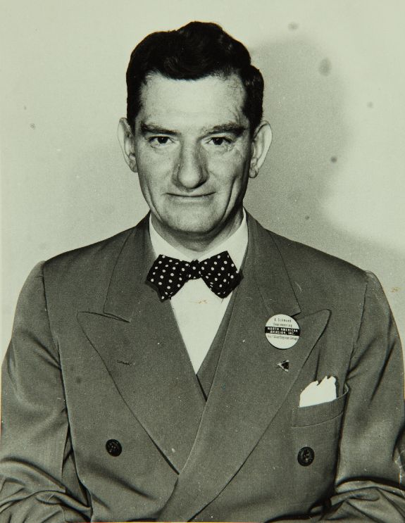 Edgar Schmued